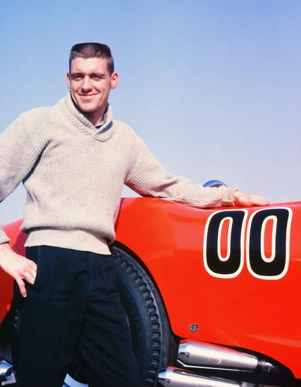 dave macdonald in corvette special